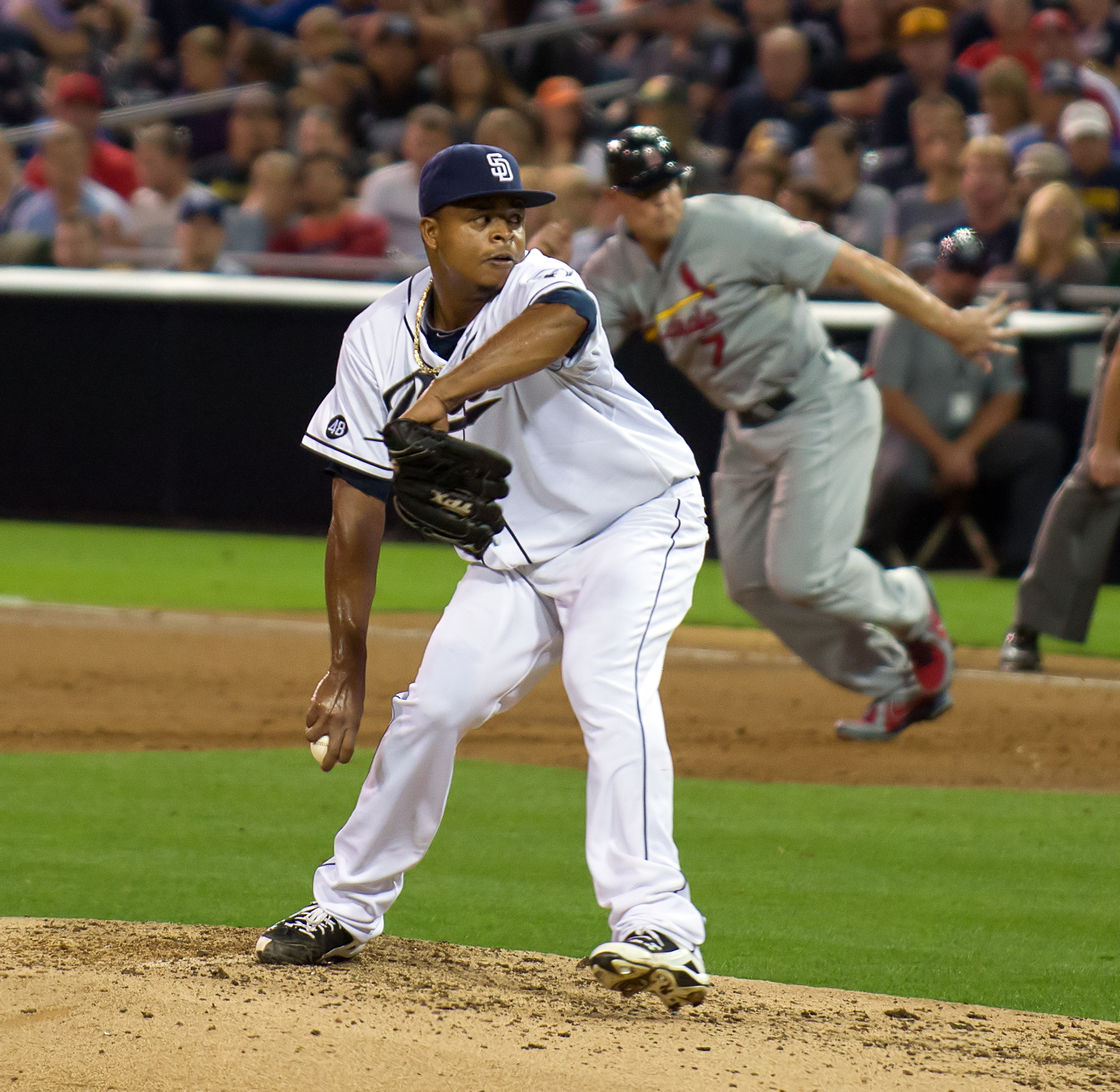 Edinson Volquez major league baseball pitcher for the San Diego Padres Sept. 11 2012 at Petco Park in San Diego California